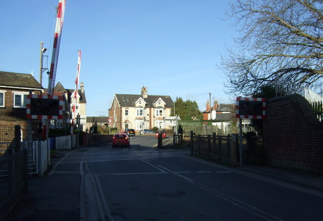 Level crossing on Skerne Road, Driffield, East Riding of Yorkshire, England.